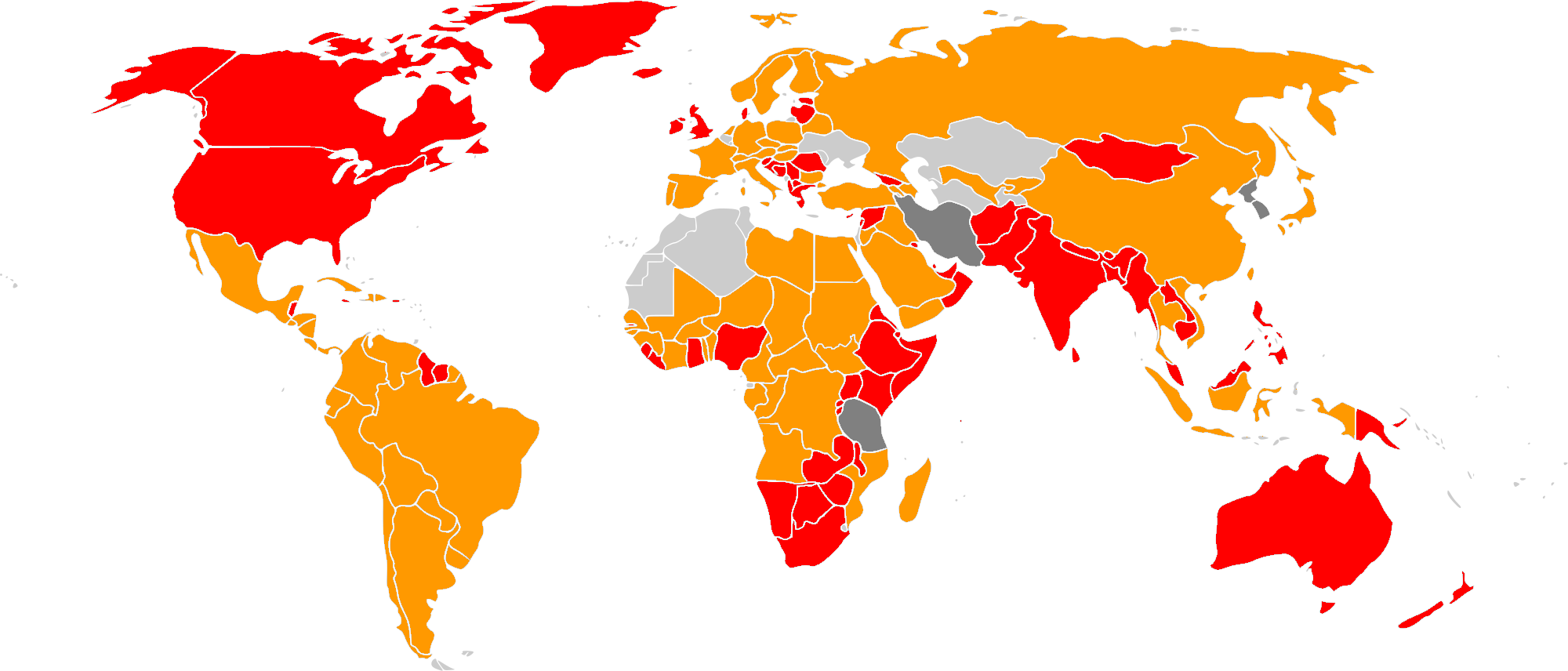 Ranking of the English language Wikipedia per view per country : first (red) and second (orange), third or more (light gray) no data available (dark gray)